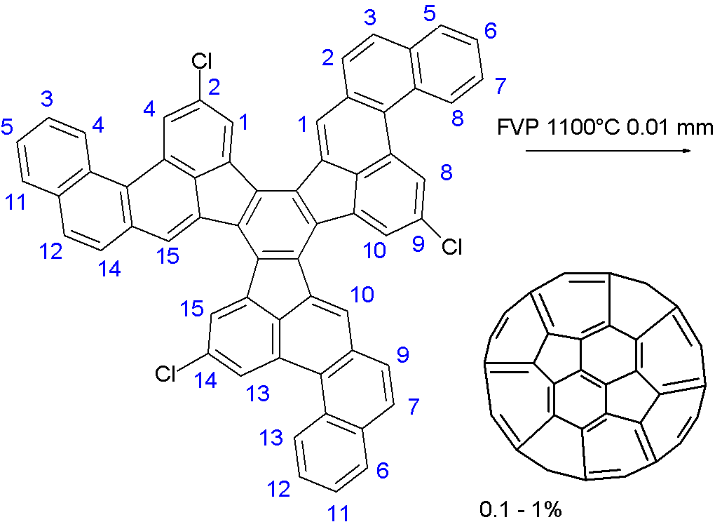 Multistep Fullerene Synthesis Scott 2002